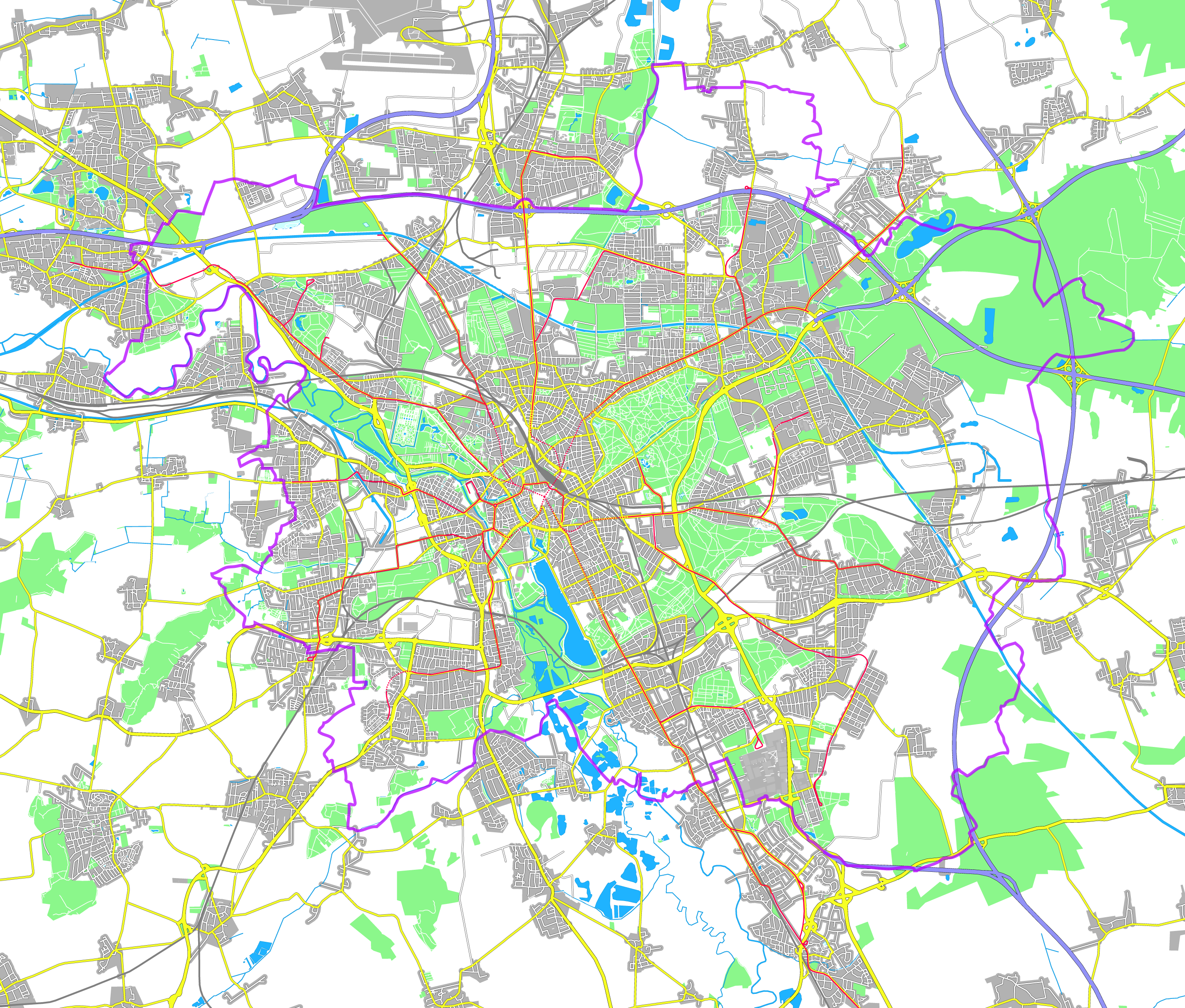 This map of Hannover was created from OpenStreetMap project data, collected by the community.This map may be incomplete, and may contain errors. Don't rely solely on it for navigation.